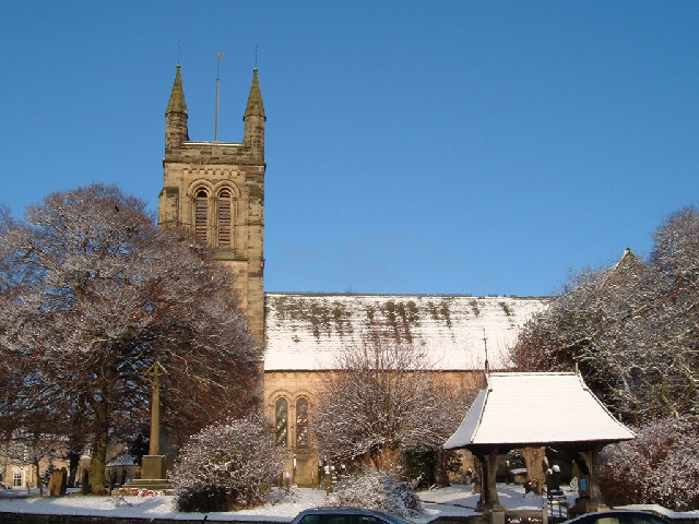 All Saints' parish church, Helmsley, North Yorkshire, seen from the south in snow